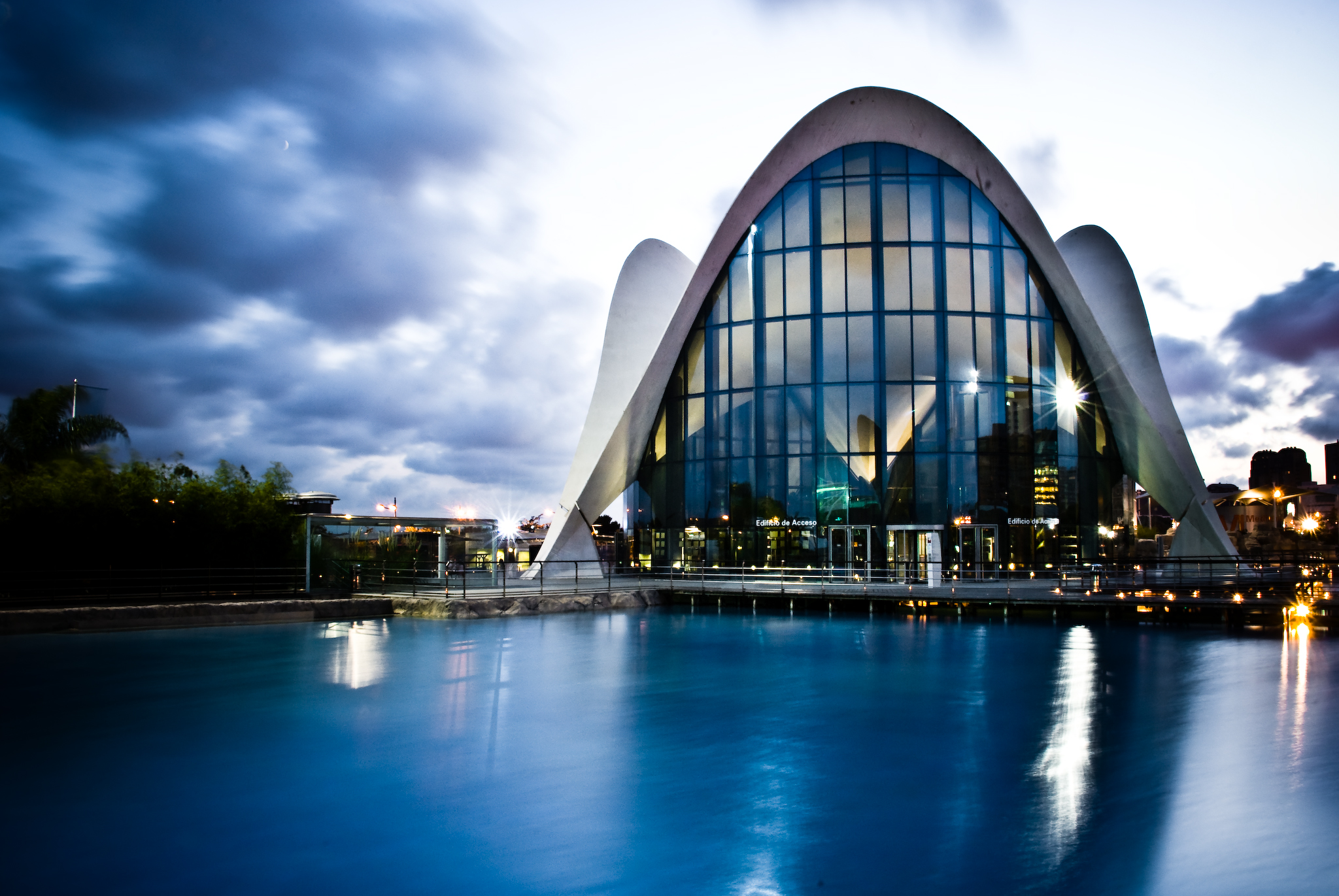 The Oceanographic pavilion in Valencia's Valencias Ciutat de les Arts i les Ciències, designed by Felix Candela